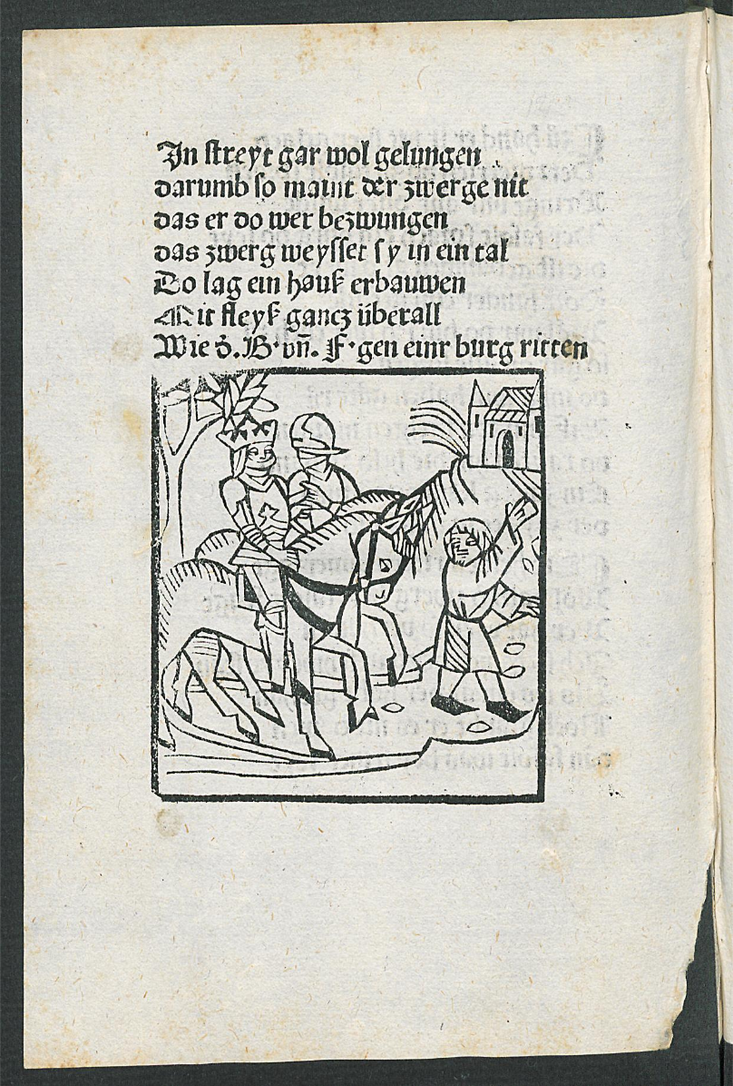 Dietrich und Fasolt. Holzschnitt aus dem Eckenlied-Druck von Hans Schaur, Augsburg, 1491. Fol. 70v. Staatsbubliothek zu Berlin Inc. 321 8o